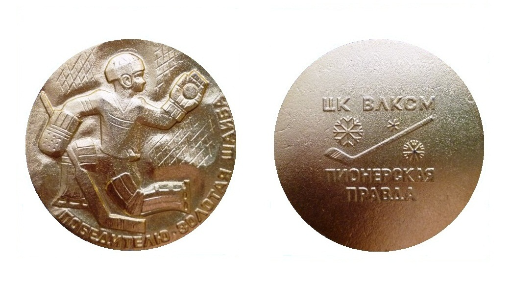 Medal Winner at the children's hockey tournament Gold puck, the prize of the newspaper Pionerskaya Pravda